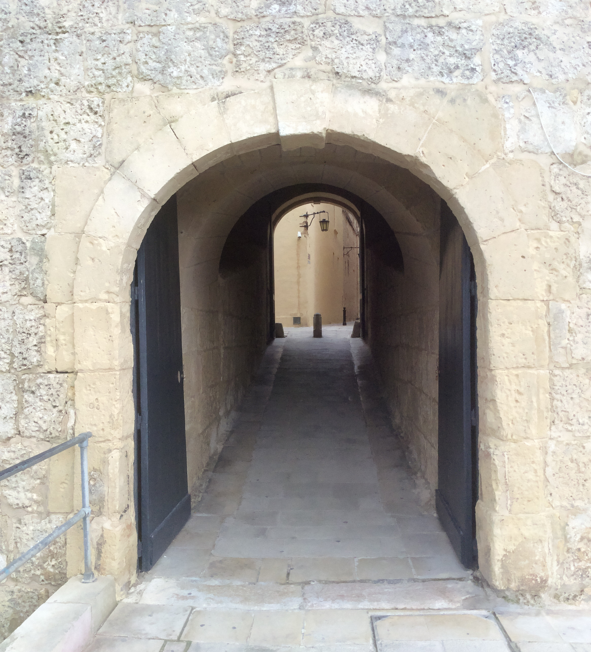 Għarreqin Gate, Mdina, Malta